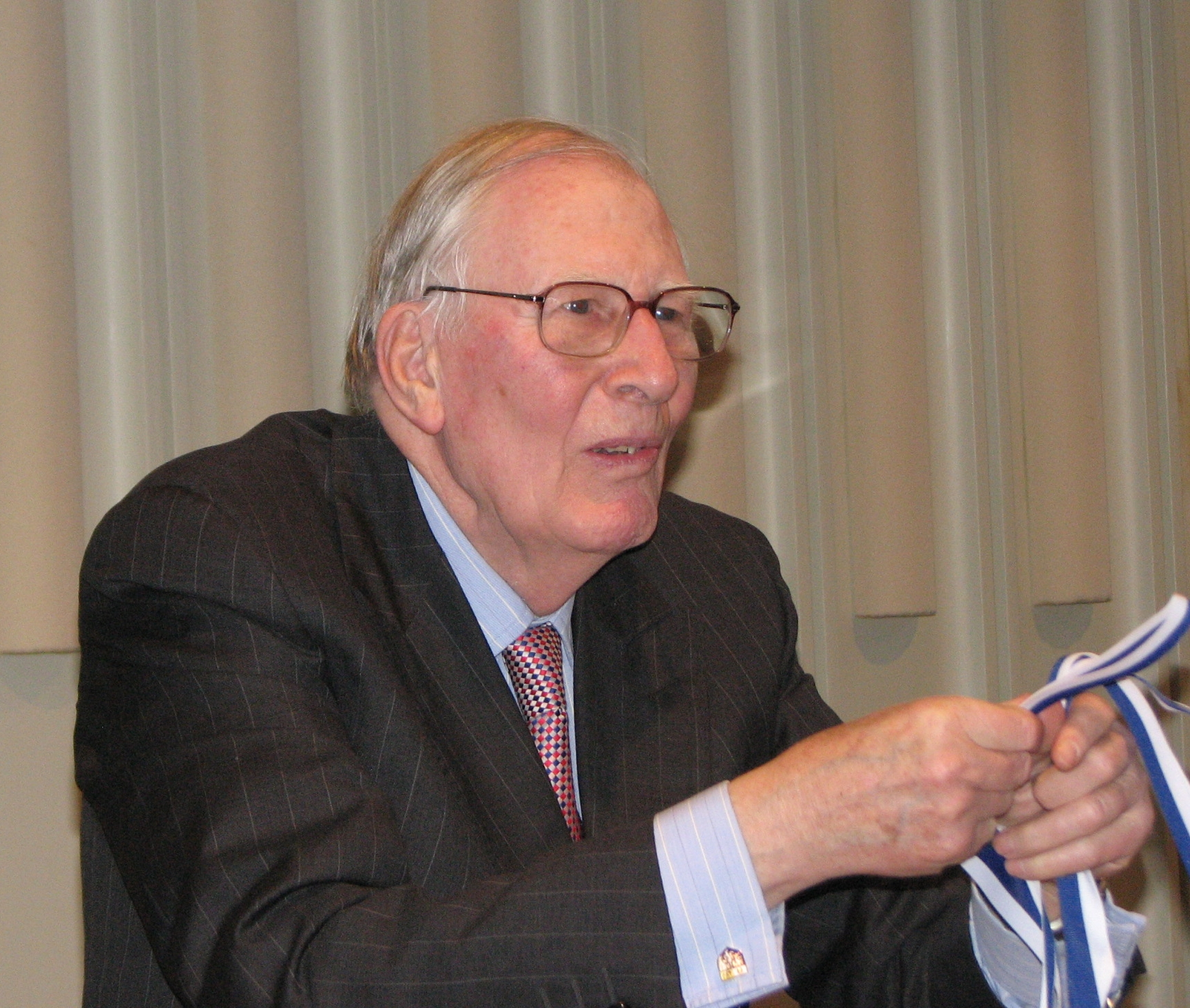 Sir Roger Bannister at the prize presentation of the 2009 Teddy Hall relay race.